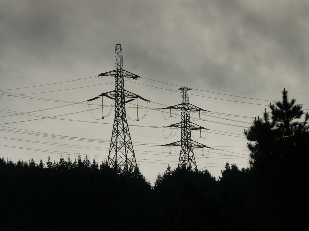 Electricity transmission lines near Cook Strait, Wellington, New Zealand, showing the HVDC Inter-Island transmission line in the foreground – ElectricityNZPICT9612.jpg